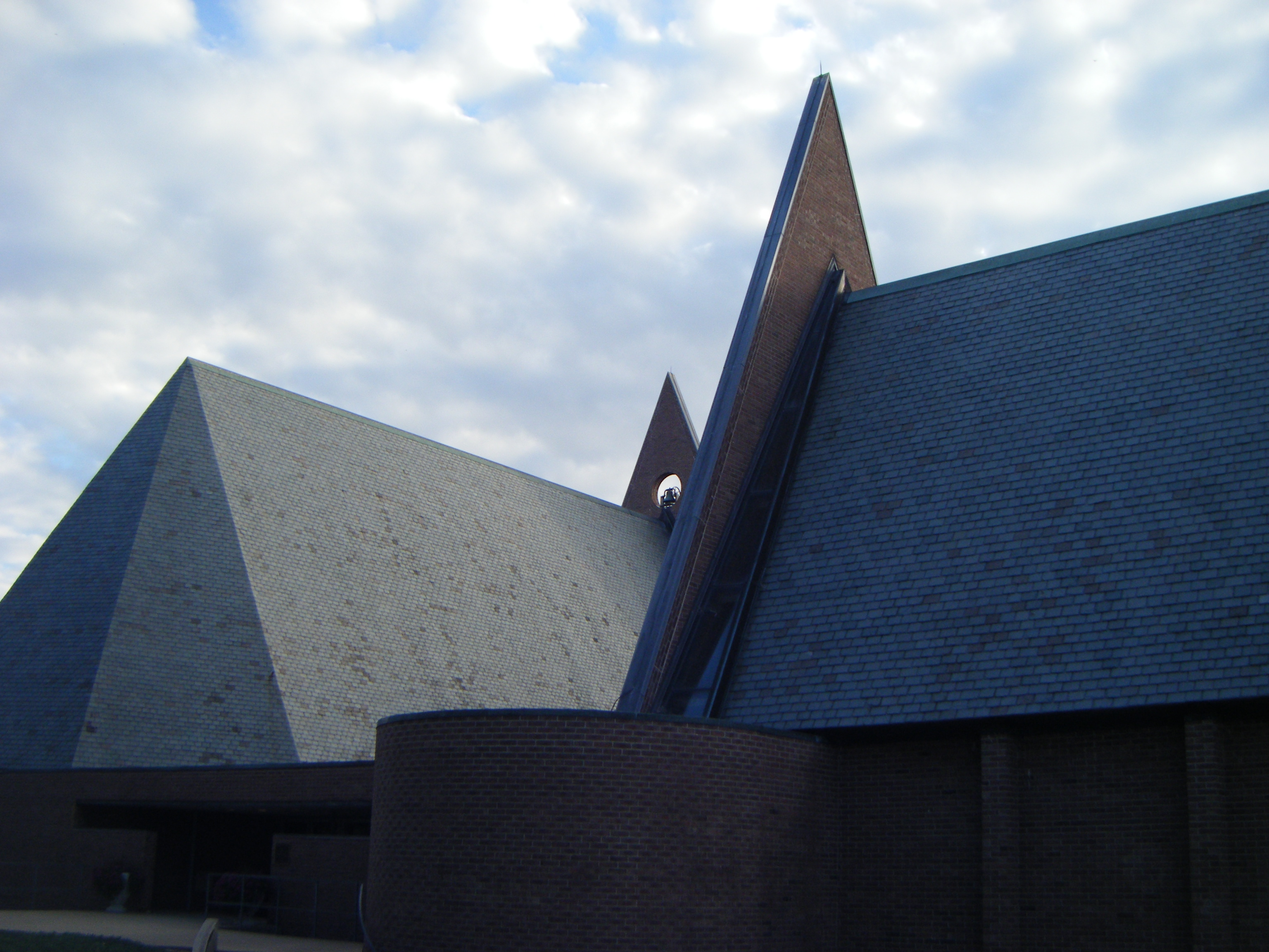 2007 view of First Baptist Church, Columbus, IN.